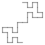 Generator for 32 Segment 1/8 scale quadric fractal.